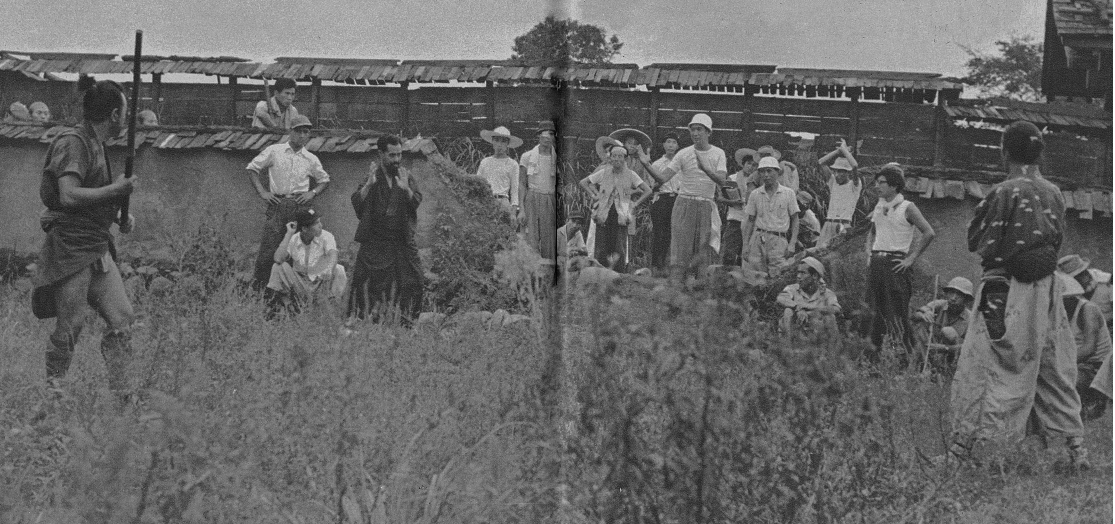 Filming of "The Seven Samurai" from Eiga no Tomo (December 1953) [stitched together from two pages, there are some visual artifacts.]